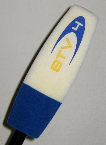 A microphonecoat from BTV4U, usual on all outdoor shootings between June 2003 and December 2004.